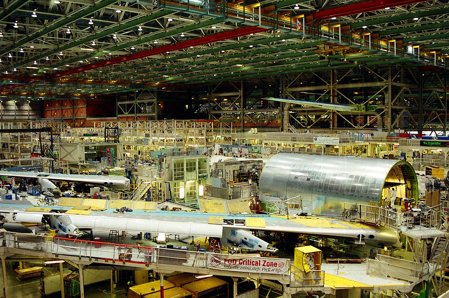 Interior of Boeing Factory, Seattle